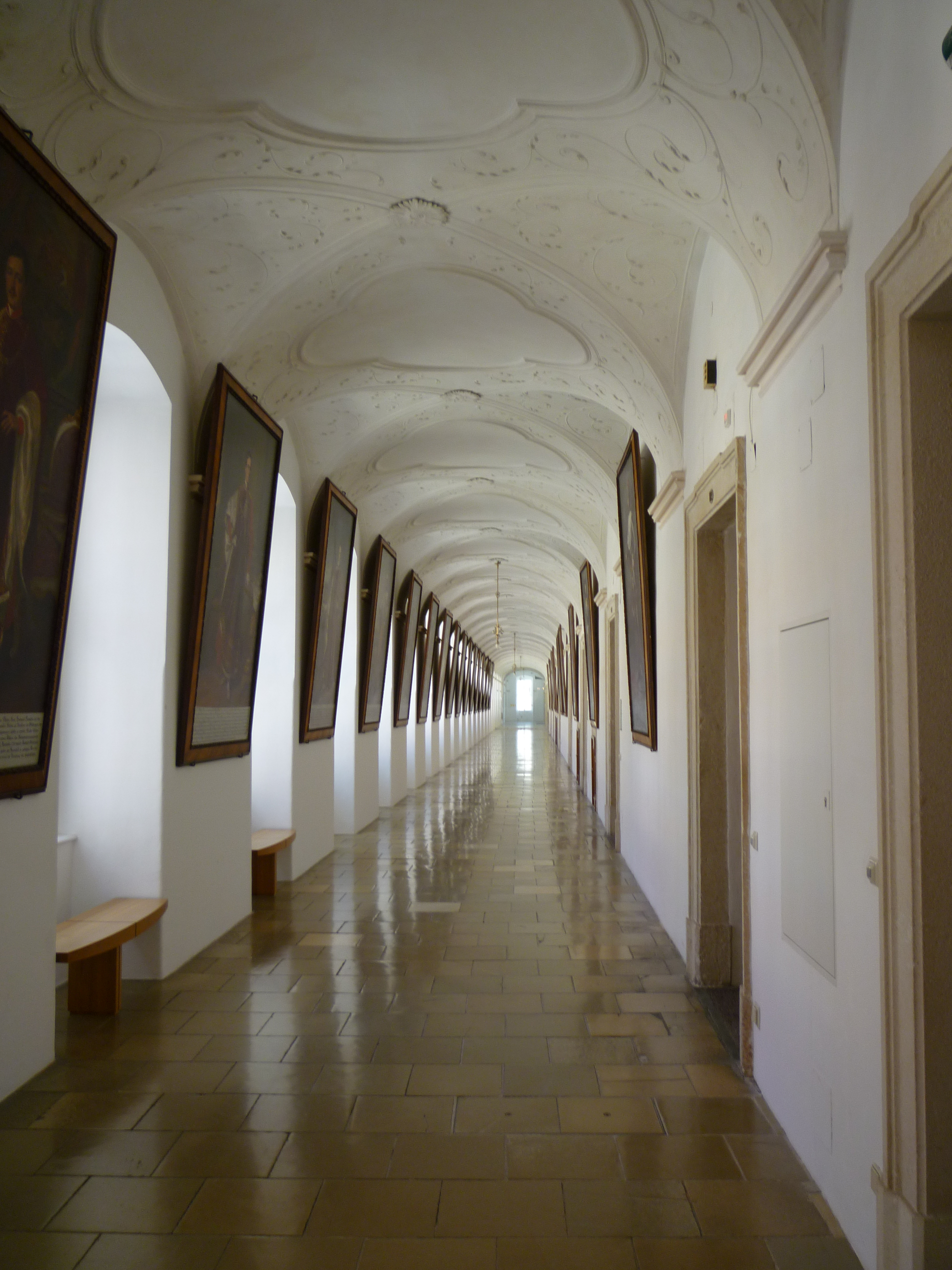 Museum corridor (Emperor's corridor) in Melk Abbey